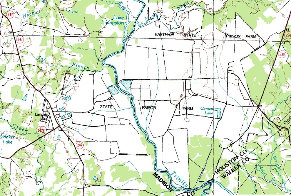 USGS topographic map of the Eastham Unit and Ferguson Unit in Texas